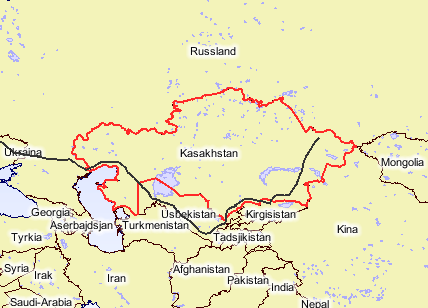 The European route 40